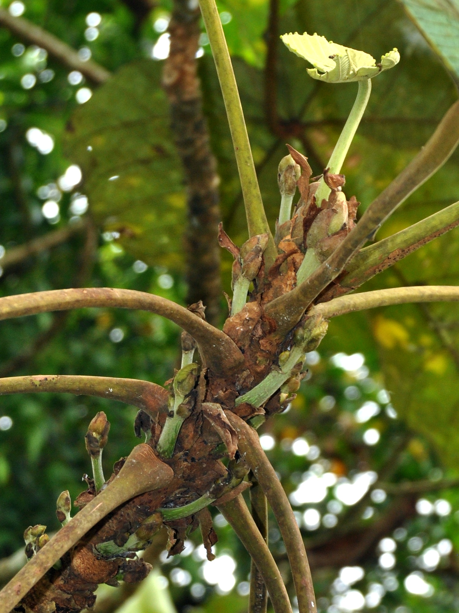 Macaranga gigantea; stipules and inflorescence buds. From Seruyan, Central Kalimantan, Indonesia.